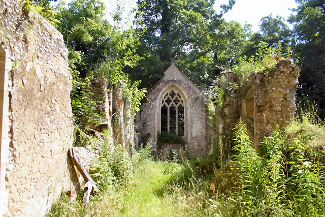 St Paul's Church, Kempstone Looking east from the ruined tower.